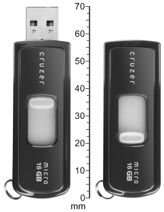 The device pictured is a 16GB SanDisk Cruzer Micro USB flash drive. Like many such drives, this model features a retractable USB connector and a hole or loop through which a string or wire loop can be attached.